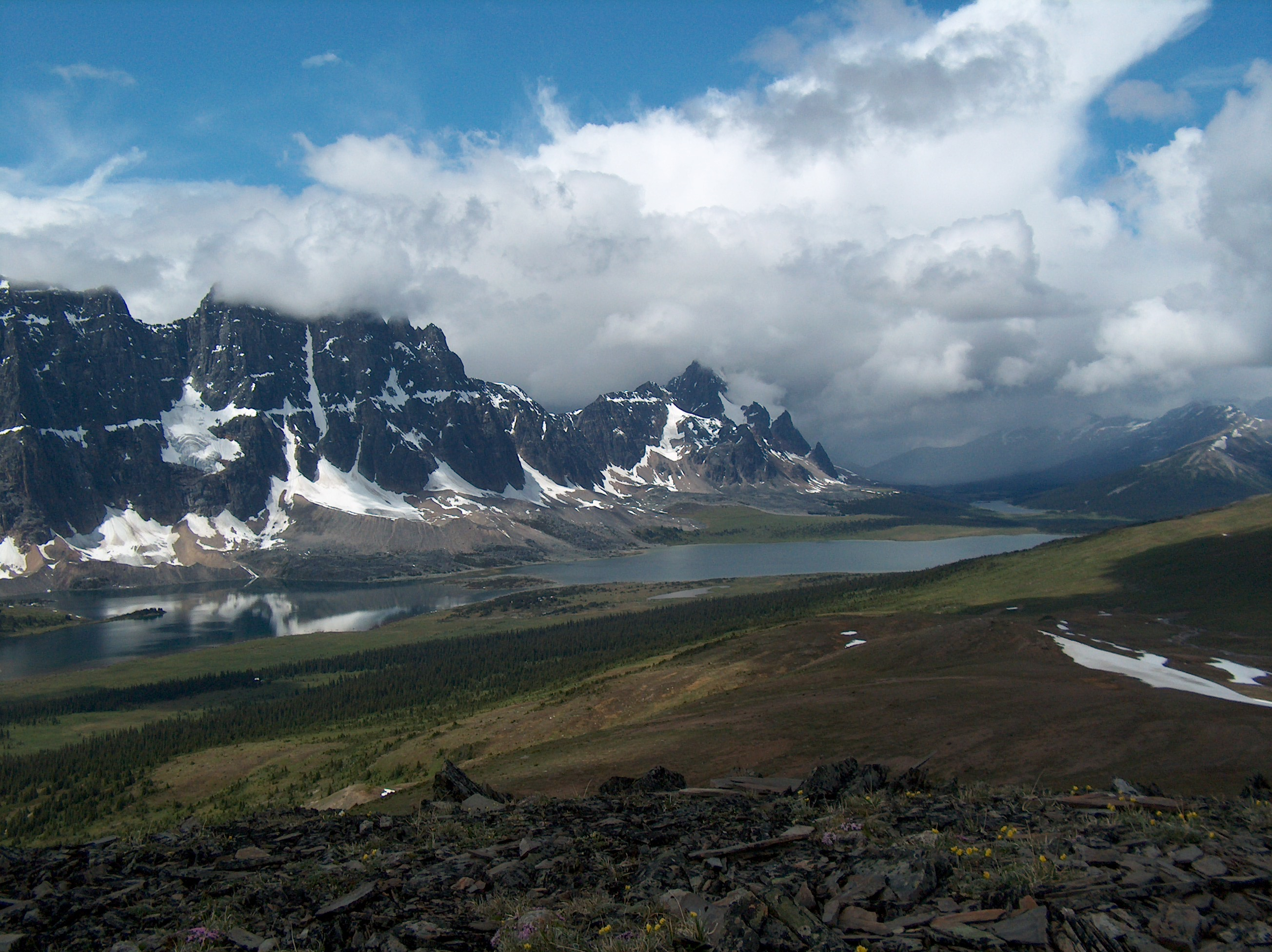 This view of the Ramparts in the Tonquin Valley, Jasper National Park, Alberta, Canada, was taken from a ridge of Oldhorn Mountain that I scrambled up on July 3, 2004 with members of the Grant MacEwan Mountain Club. The large lake is called the Amethyst Lakes. The plural of Lakes was given the lake as the original surveyors thought they had two lakes. The error was found later but the name was never changed. The lake in the distance on the right is Moat Lake in Moat Pass.